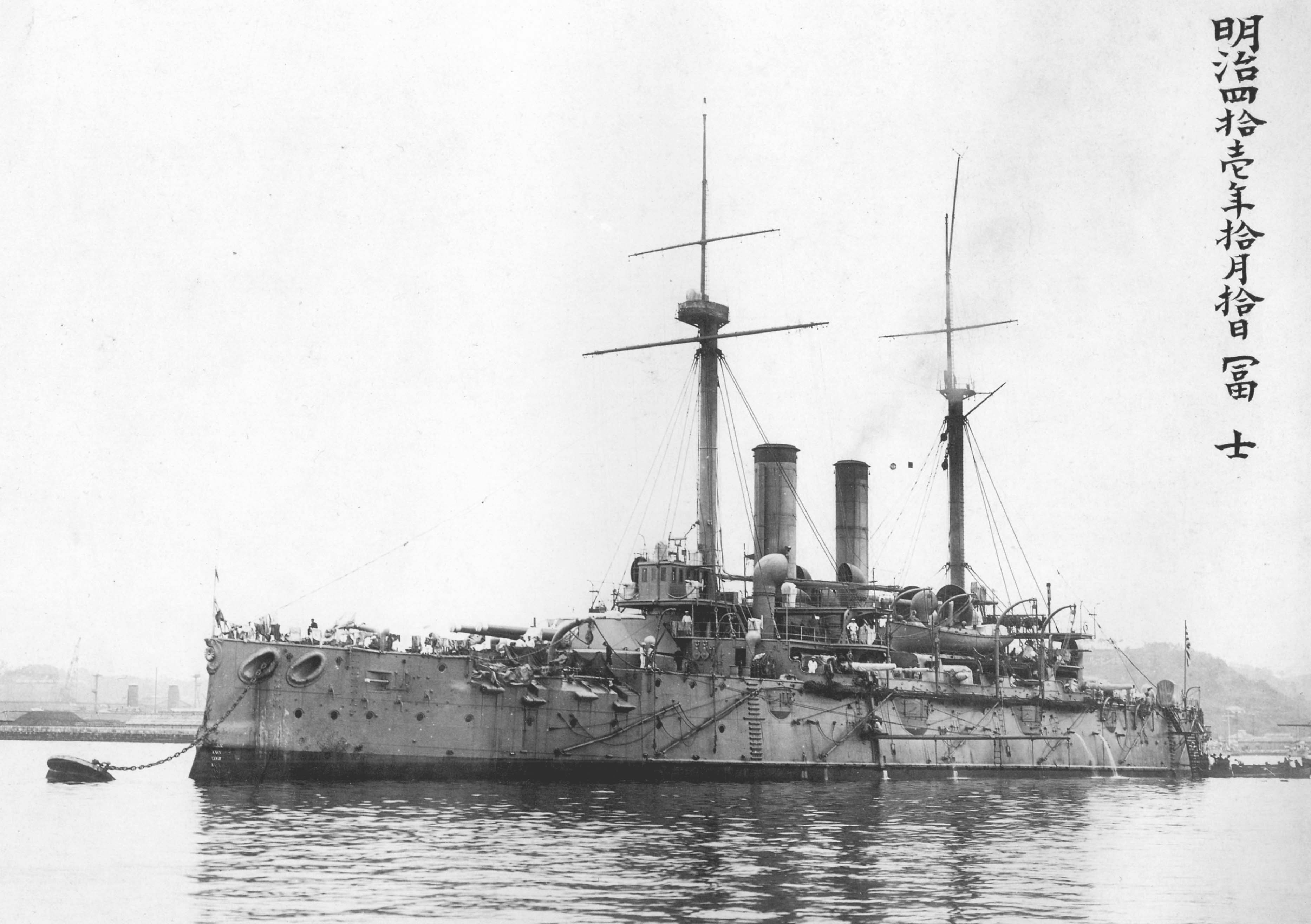 The Fuji, a member of the Fuji-class battleships of the Japanese Imperial Navy